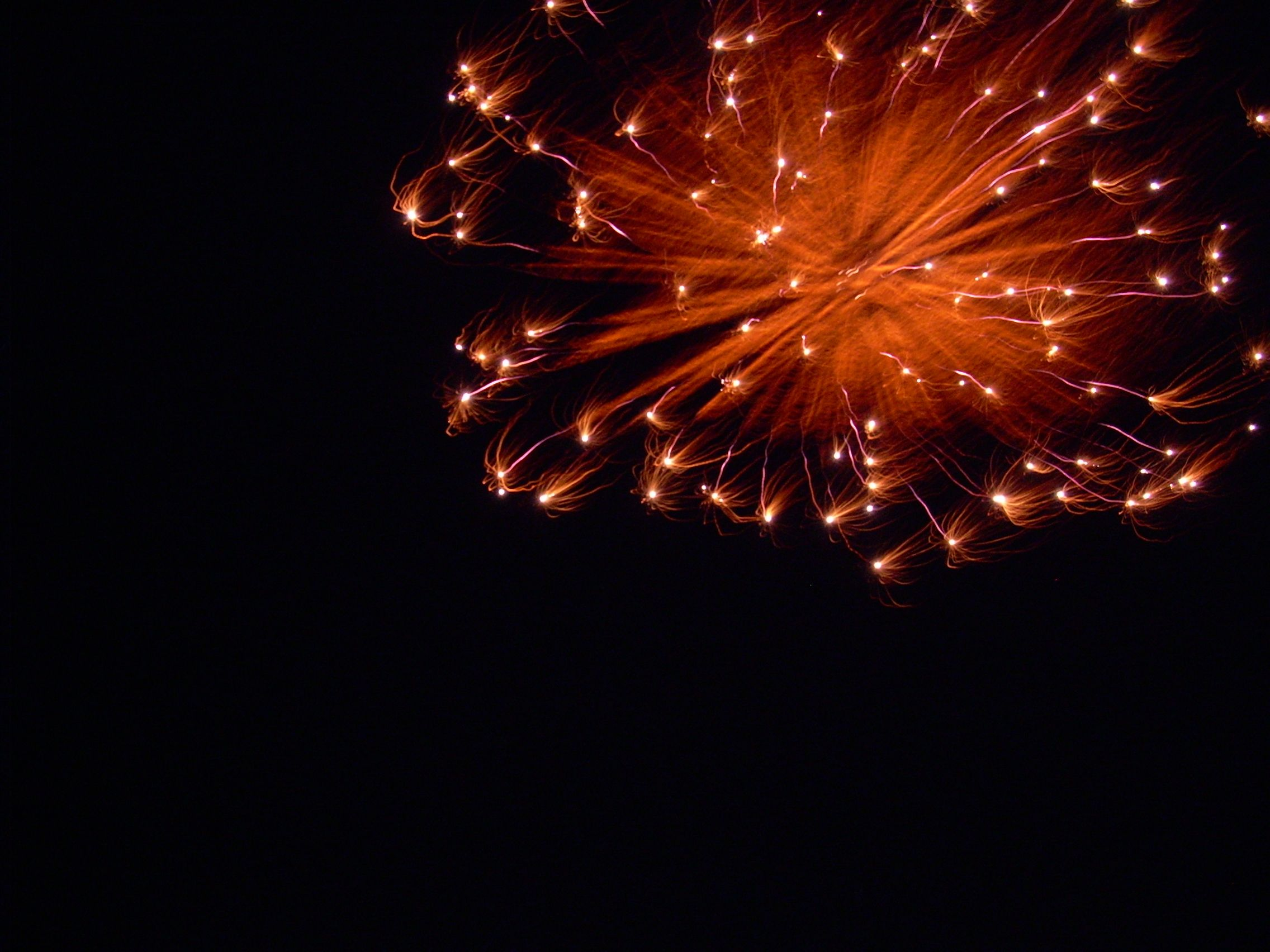 Artillery shells from consumer fireworks produce spectacular effects from a unique perspective - underneath them. This is a typical kamuro effect. Photographed by Nick Smith (aka ulillillia)